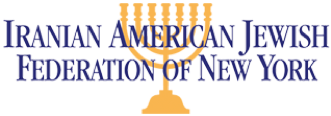 Iranian American Jewish Federation of New York Logo